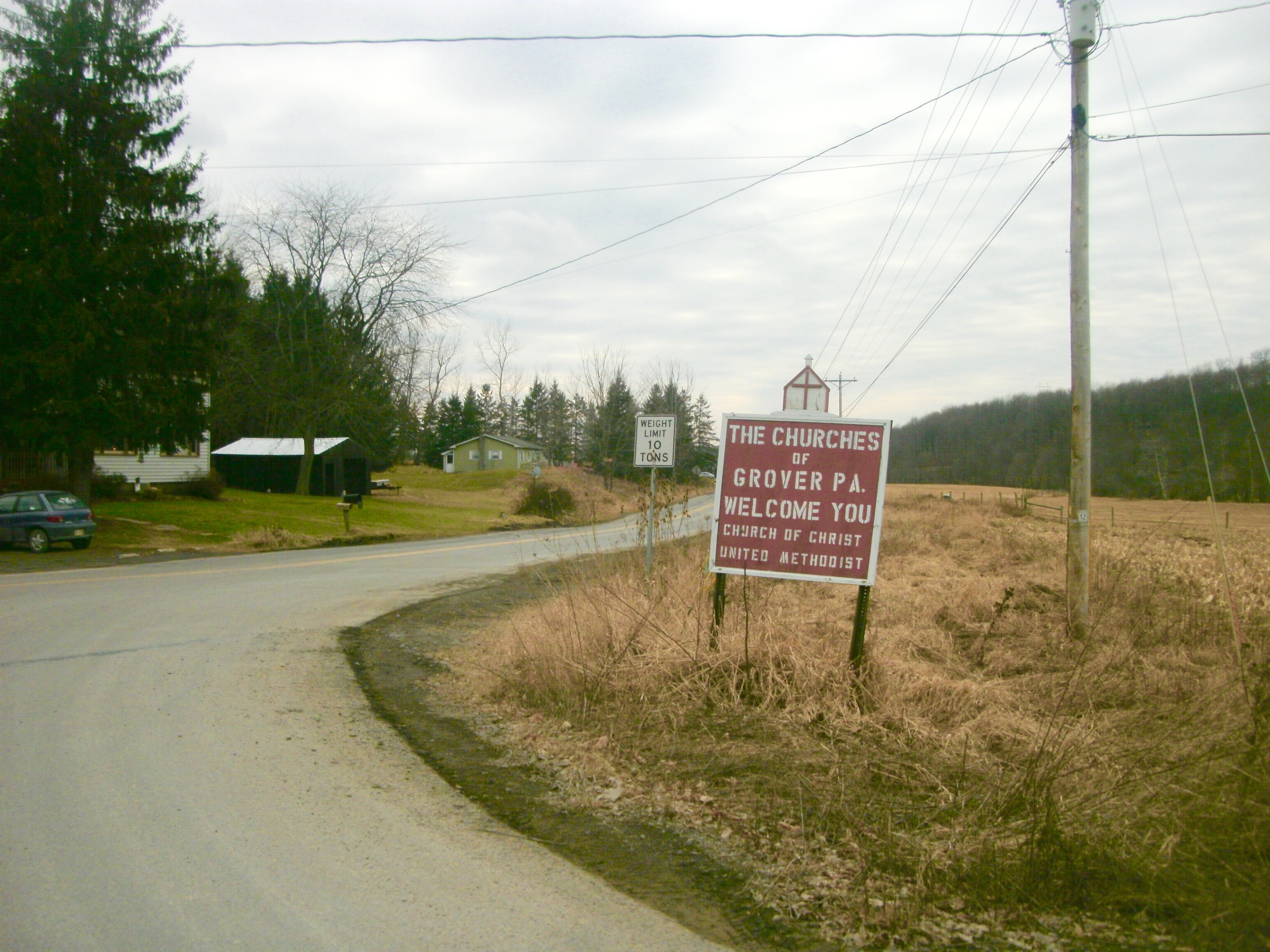 Grover, Pennsylvania signage from its local churches off to the side of Route 154 in Canton Township.